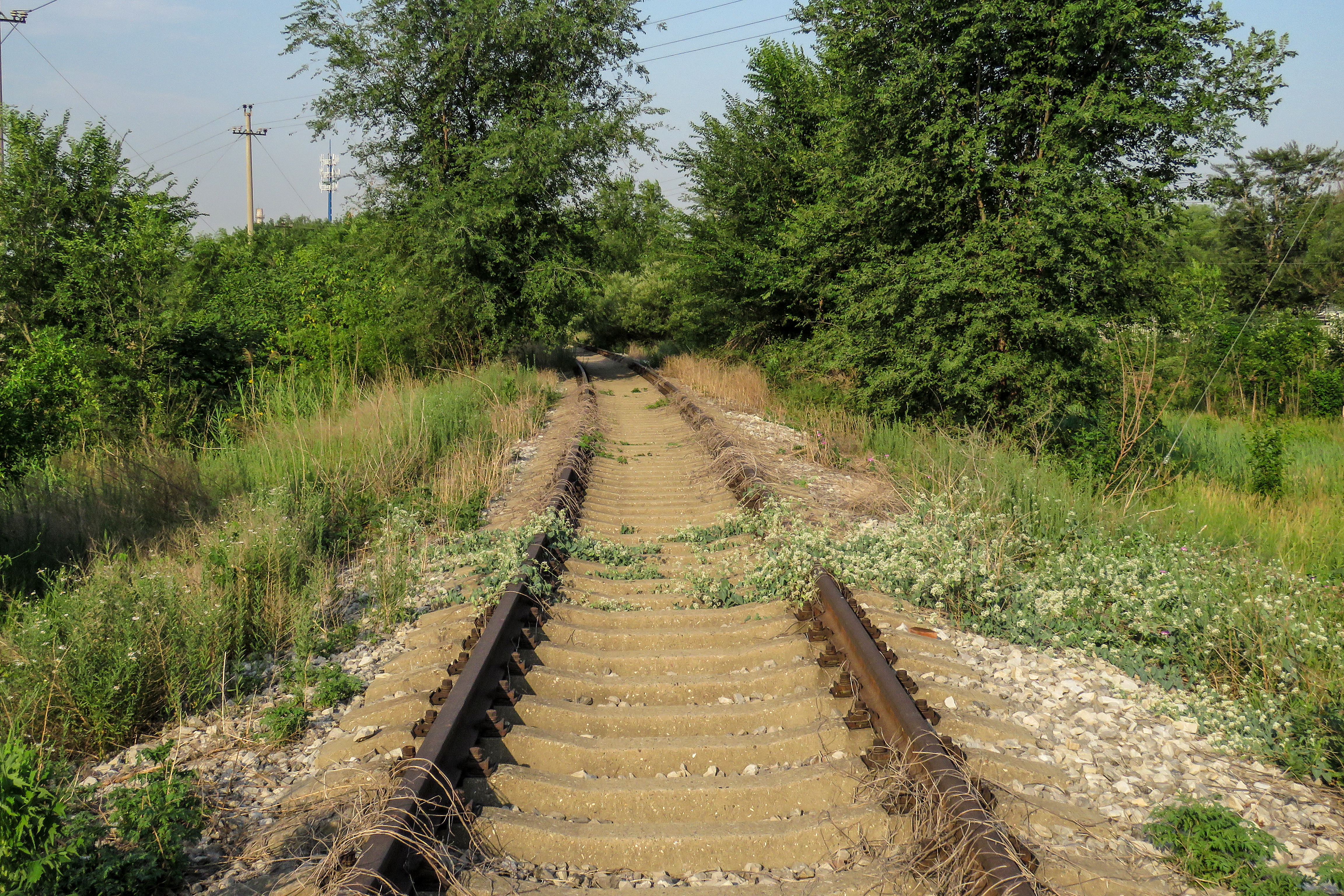 Dense vegetation... A "love tunnel"? No way!